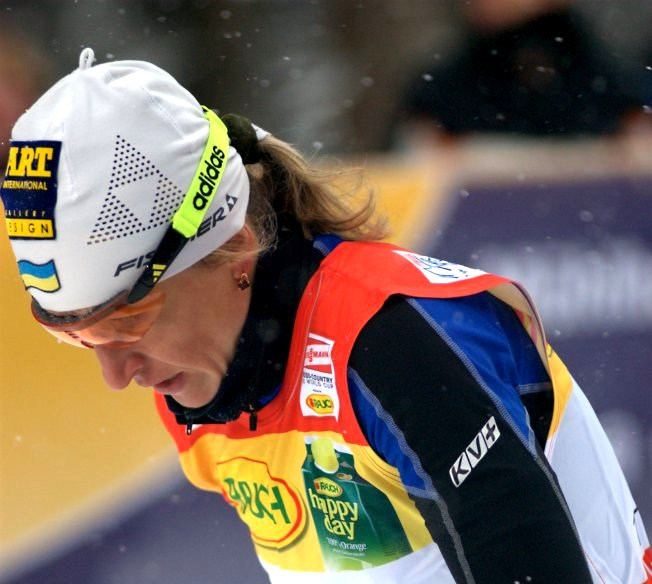 Valentina Shevchenko at the Tour de Ski 2010 in Oberhof